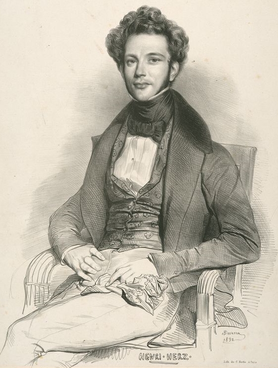 Austrian pianist and composer Henri Herz (1803–1888) by Achille Devéria (1800–1857)